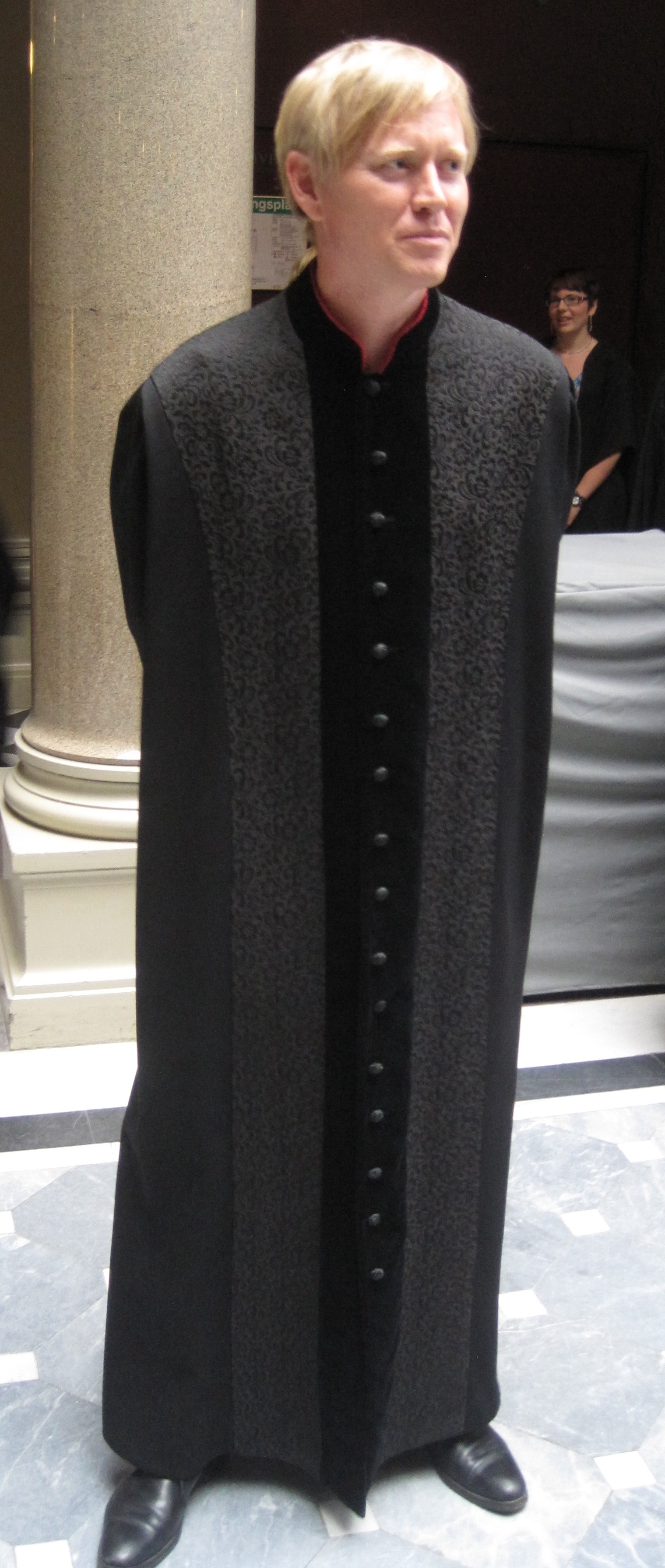 Talar (academic robe) of the kind used at ceremonies at Lund University, Sweden.